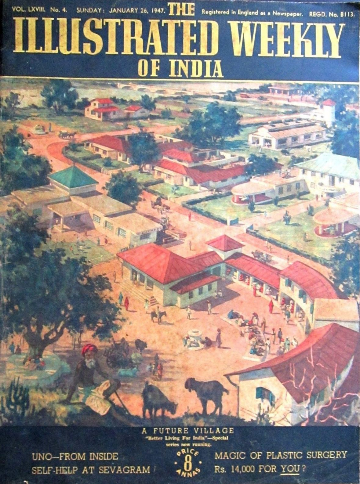 Cover of the Illustrated Weekly of India, January 26, 1947